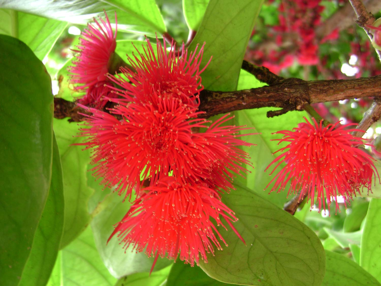 Syzygium malaccense, flowering, in Tonga